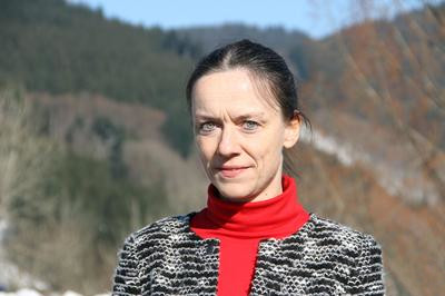 Mathematician Dorothee Haroske at the Mathematical Research Institute of Oberwolfach